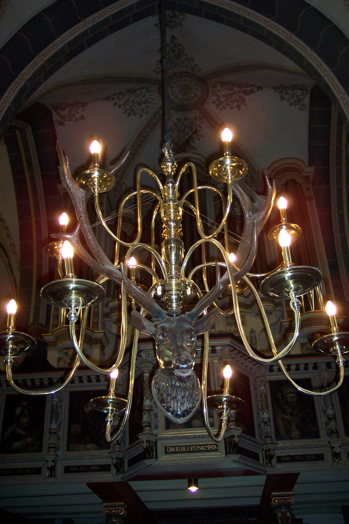 Church chandelier in town of Herford, District of Herford, North Rhine-Westphalia, Germany.